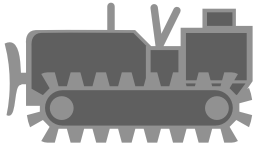 US Navy Equipment Operator (EO). A bulldozer, blade to the front.